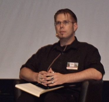 German author Markus Heitz at Perry Rhodan-Weltcon, october 2011 in Mannheim